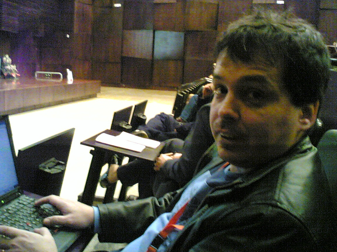 Converted from Rich Text